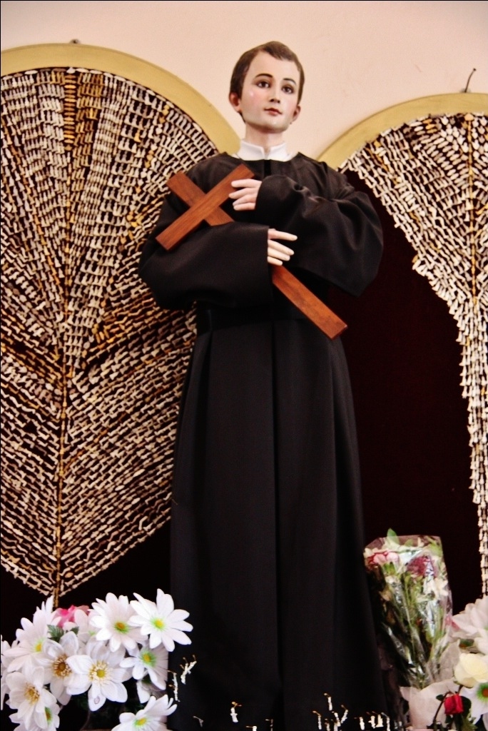 Francis of Assisi Church, Acambaro, Guanajuato State, Mexico